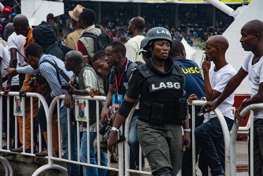 Nigerian police during EYO festival at Tafawa Balewa Square in Lagos Nigeria This is an image of "African people at work" from Nigeria